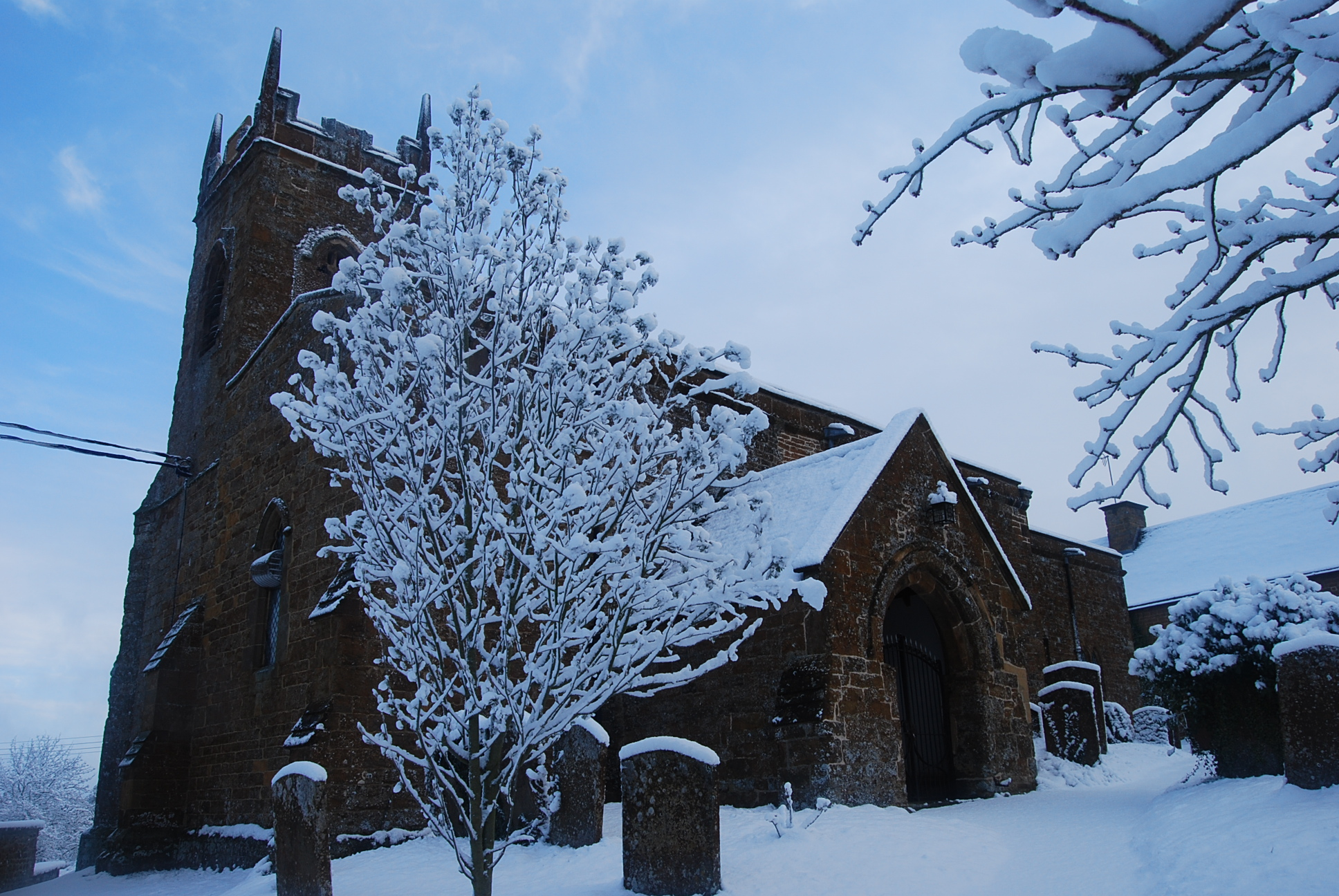 St Martin's parish church, Shutford, Oxfordshire, seen from the southwest in snow